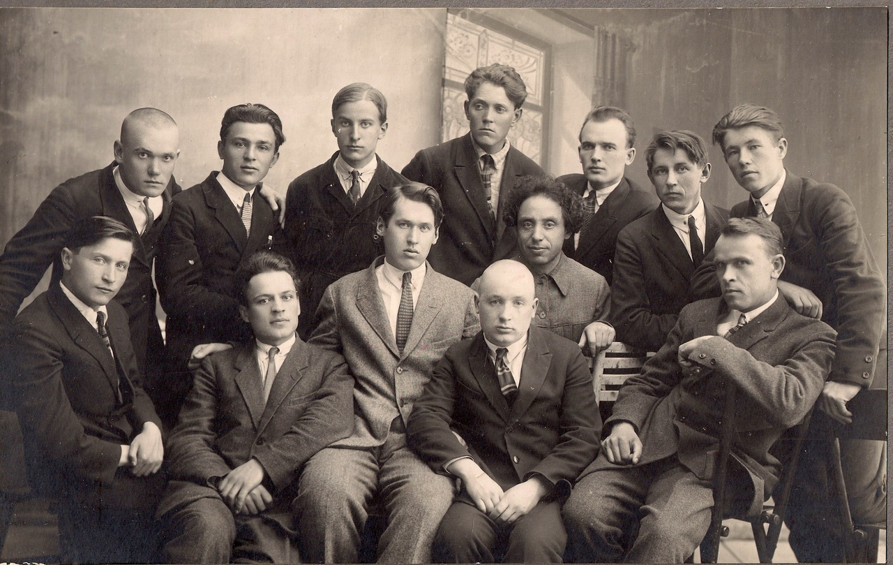 Літаратурнае аб'яднаньне «Узвышша». Першы рад: Я.Пушча, А.Бабарэка, У.Дубоўка, К.Чорны, З.Бядуля, К.Крапіва. Другі рад: М.Лужанін, С.Дарожны, А.Адамовіч, Т.Кляшторны, У.Жылка, В.Шашалевіч, П.Глебка. Менск. 1929 г.